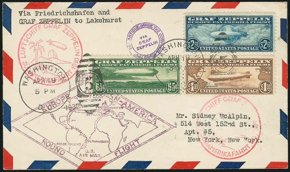 Image of flowen firrst day Zepplin cover